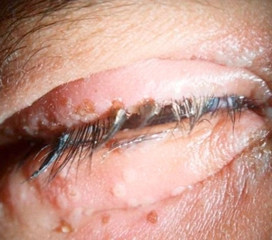 Herpetic blepharitis: Swelling and erythema of the eyelids along with erosions and ulcerations of the lid margins can be seen.